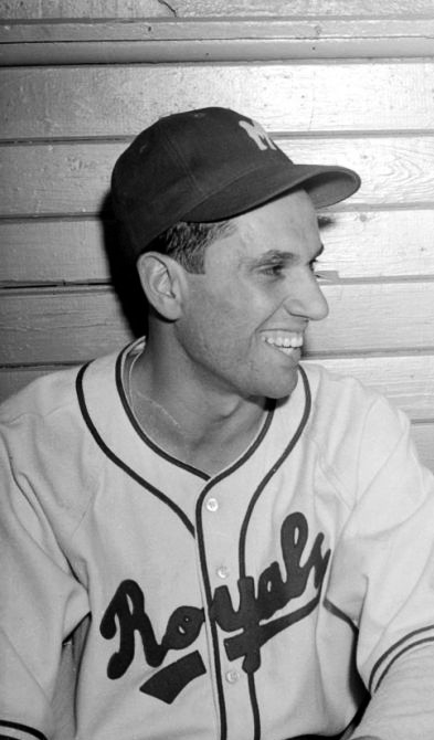 Baseball player Jean-Pierre Roy, in his uniform of the Montreal Royals, July 9, 1946.